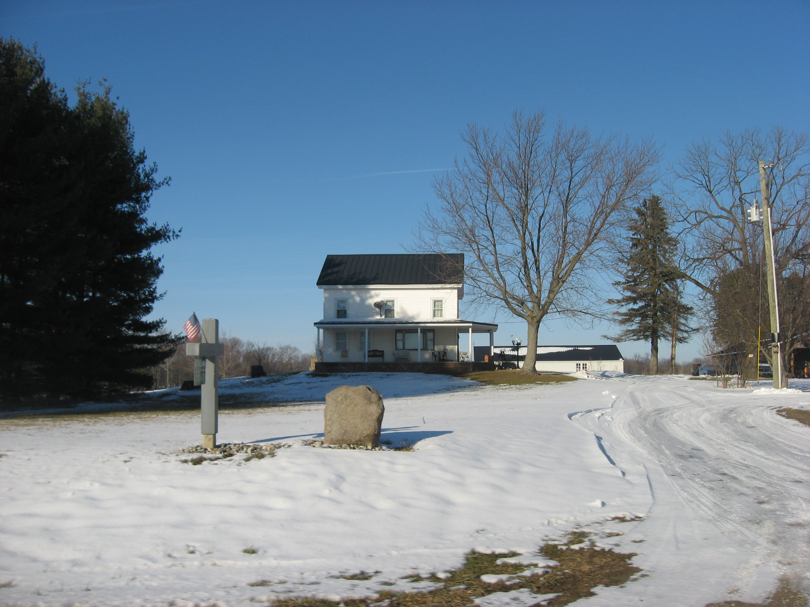 Front of the Gump House, located at 67 State Road 8 northwest of Garrett in Keyser Township, DeKalb County, Indiana, United States. Built in 1854, it is listed on the National Register of Historic Places.